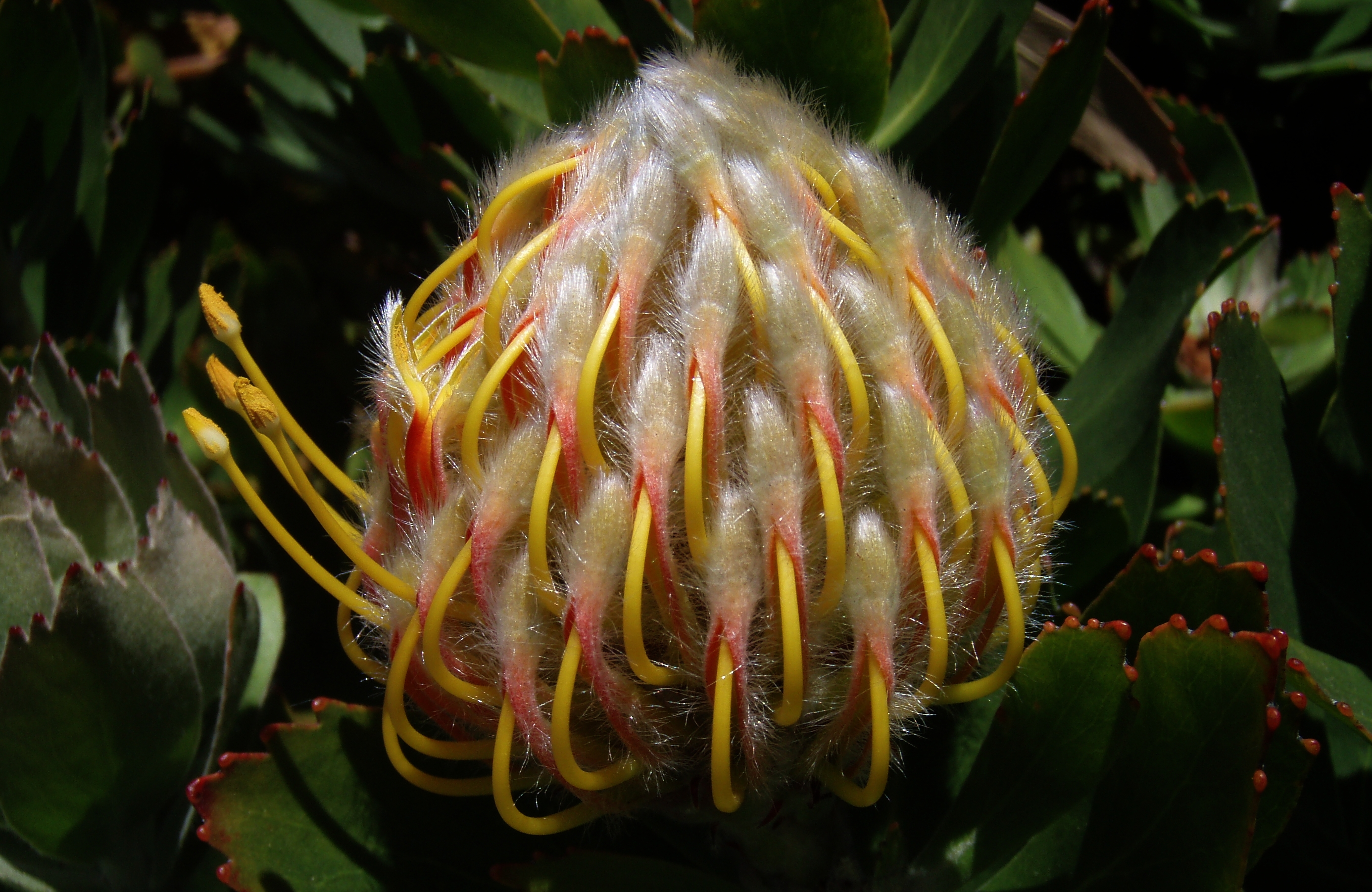 Pincushion, Leucospermum 'Veld Fire' Flower Bud